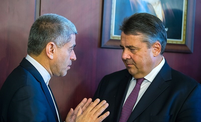 Ali Tayebnia meeting German Vice Chancellor Sigmar Gabriel in Tehran